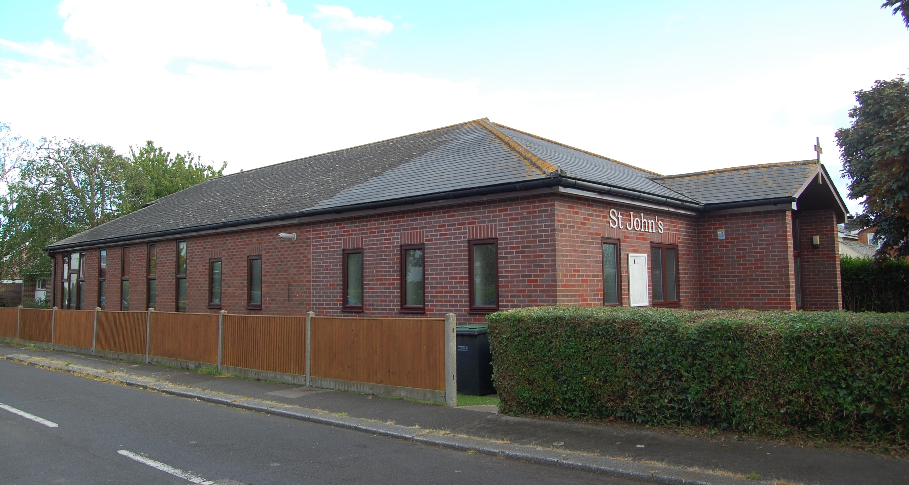 St John the Evangelist's Church, South Place, Lee-on-the-Solent, Borough of Gosport, Hampshire. The Roman Catholic parish church of Lee-on-the-Solent, part of a joint parish with the Church of the Immaculate Conception at Stubbington. Opened in 1981 on the site of a church of the same name dating from the 1940s.